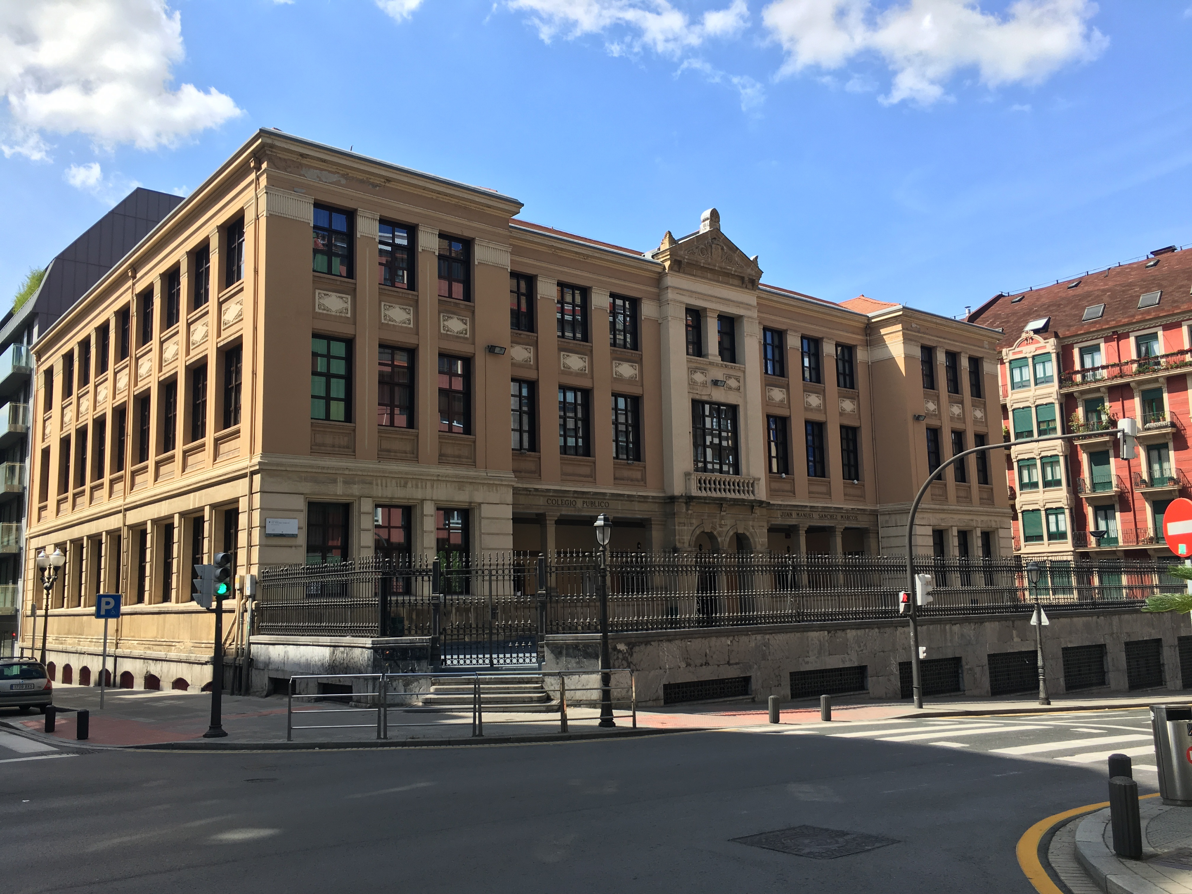 National School "Juan Manuel Sánchez Marcos" in Bilbao, Spain.